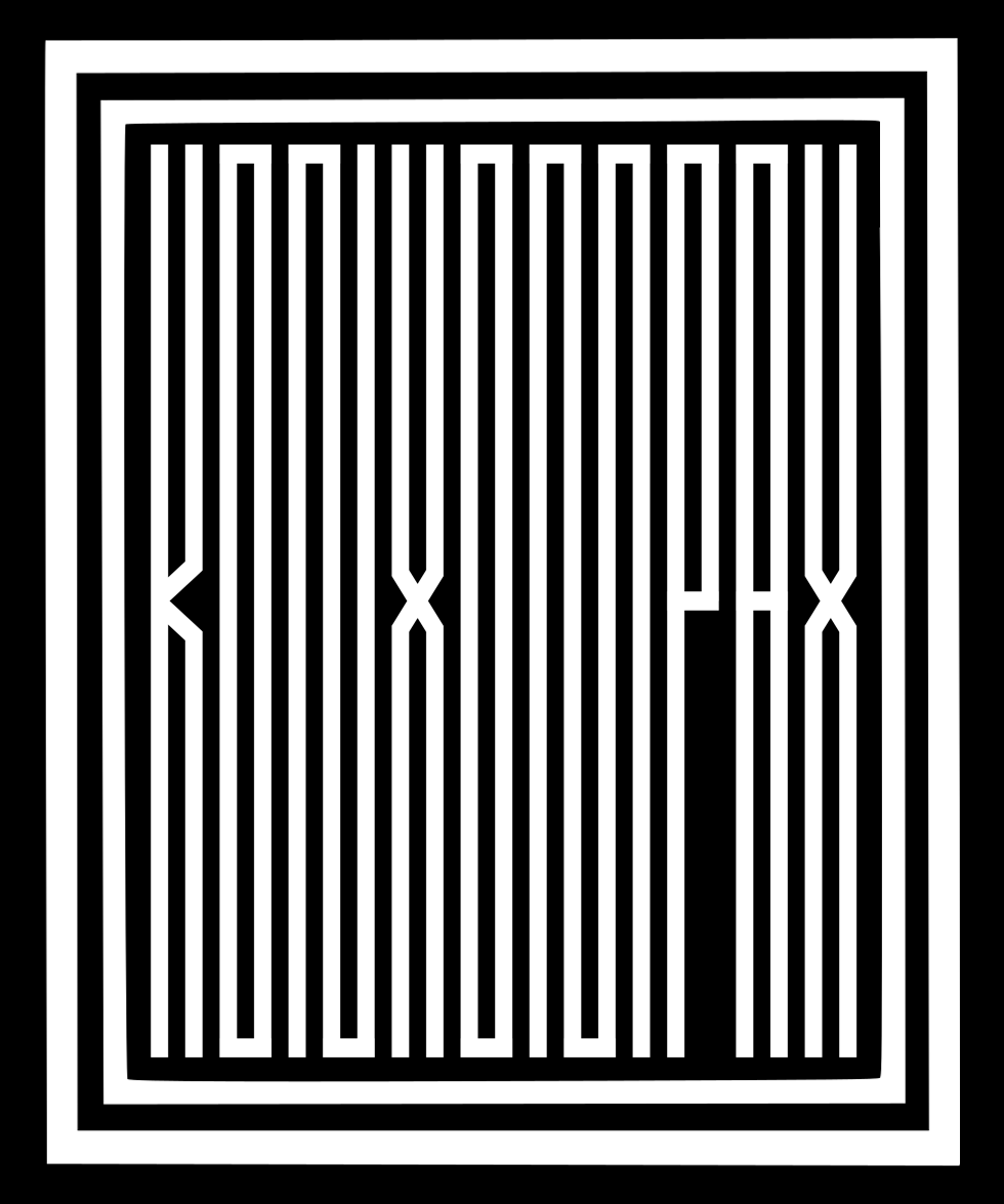 Cover design of Konx Om Pax